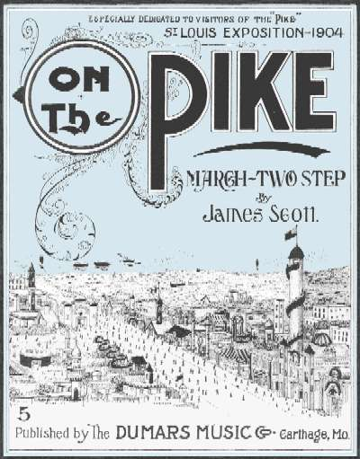 "On the Pike" (sheet music) cover page